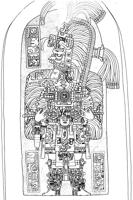 Portrait of Jasaw Chan Kʼawiil I, found on Stela 16 from Tikal.